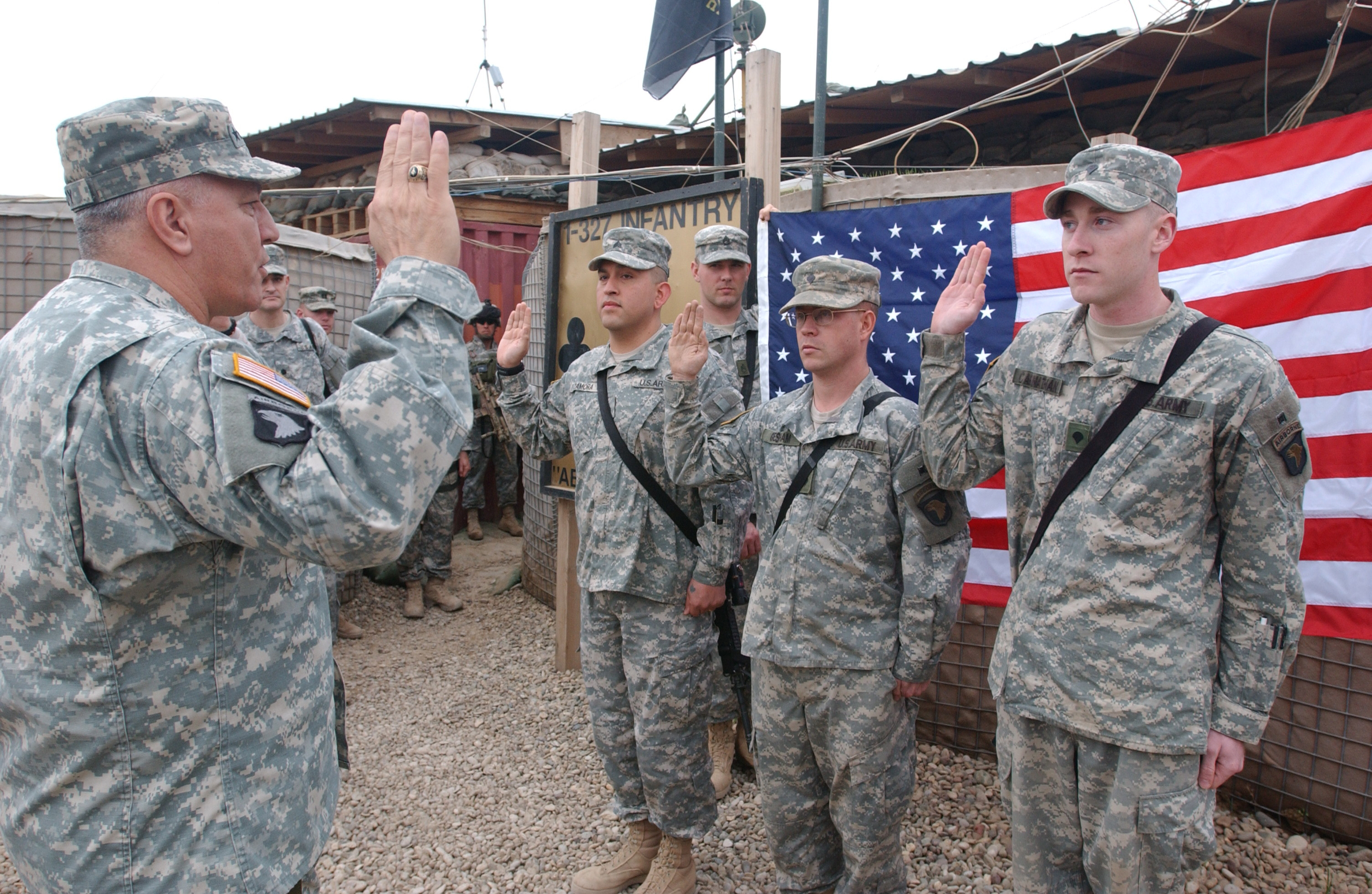 Gen. Richard A. Cody, vice chief of staff for the U.S. Army, recites the oath of enlistment to soldiers of 1st Battalion, 327th Brigade, 101st Airborne Division, during a re-enlistment ceremony last week. Cody visited troops at various forward operating bases throughout Iraq during his two-day visit.